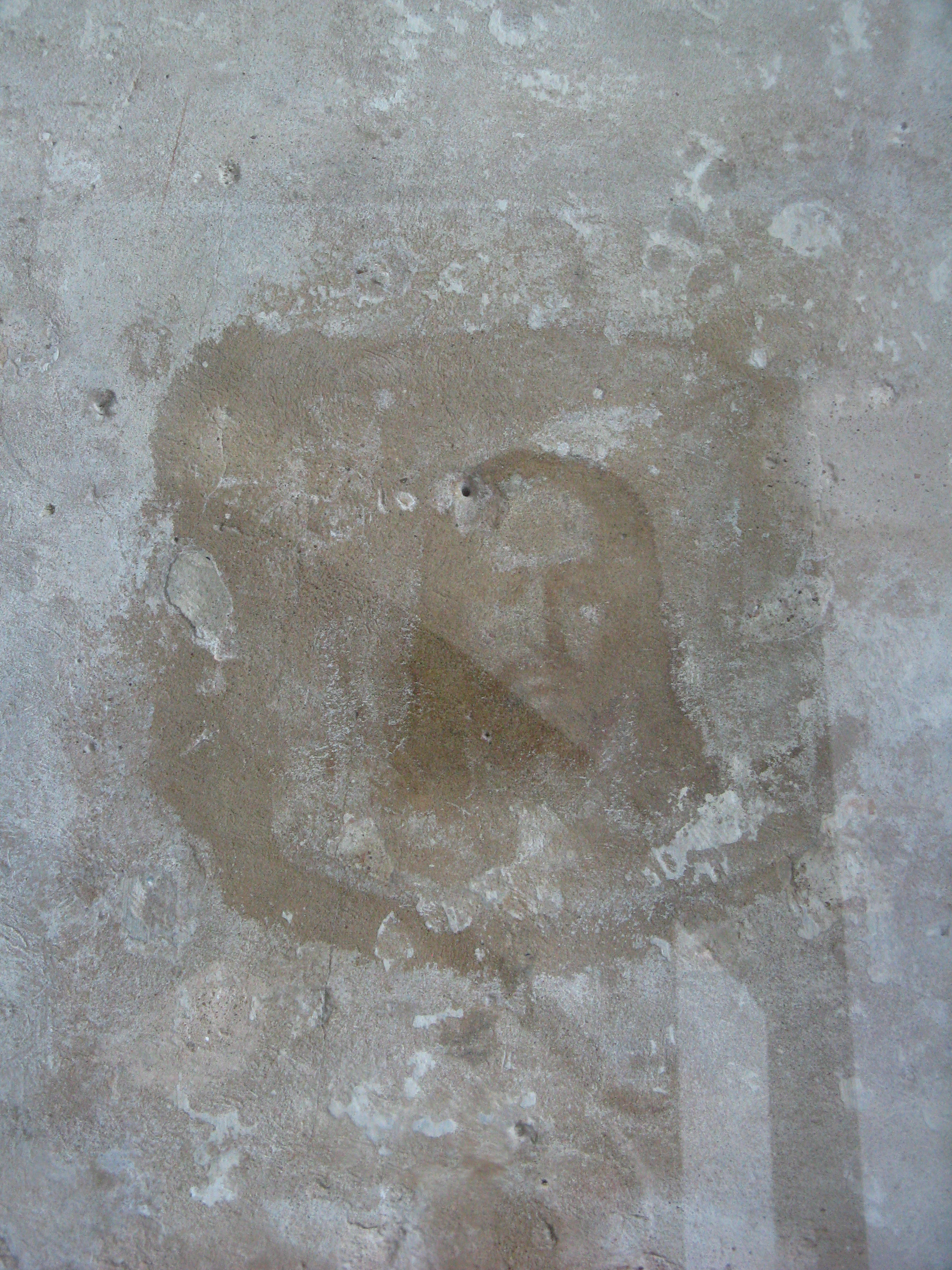 Dormition Monastery in Pustynka, Mstislavl area